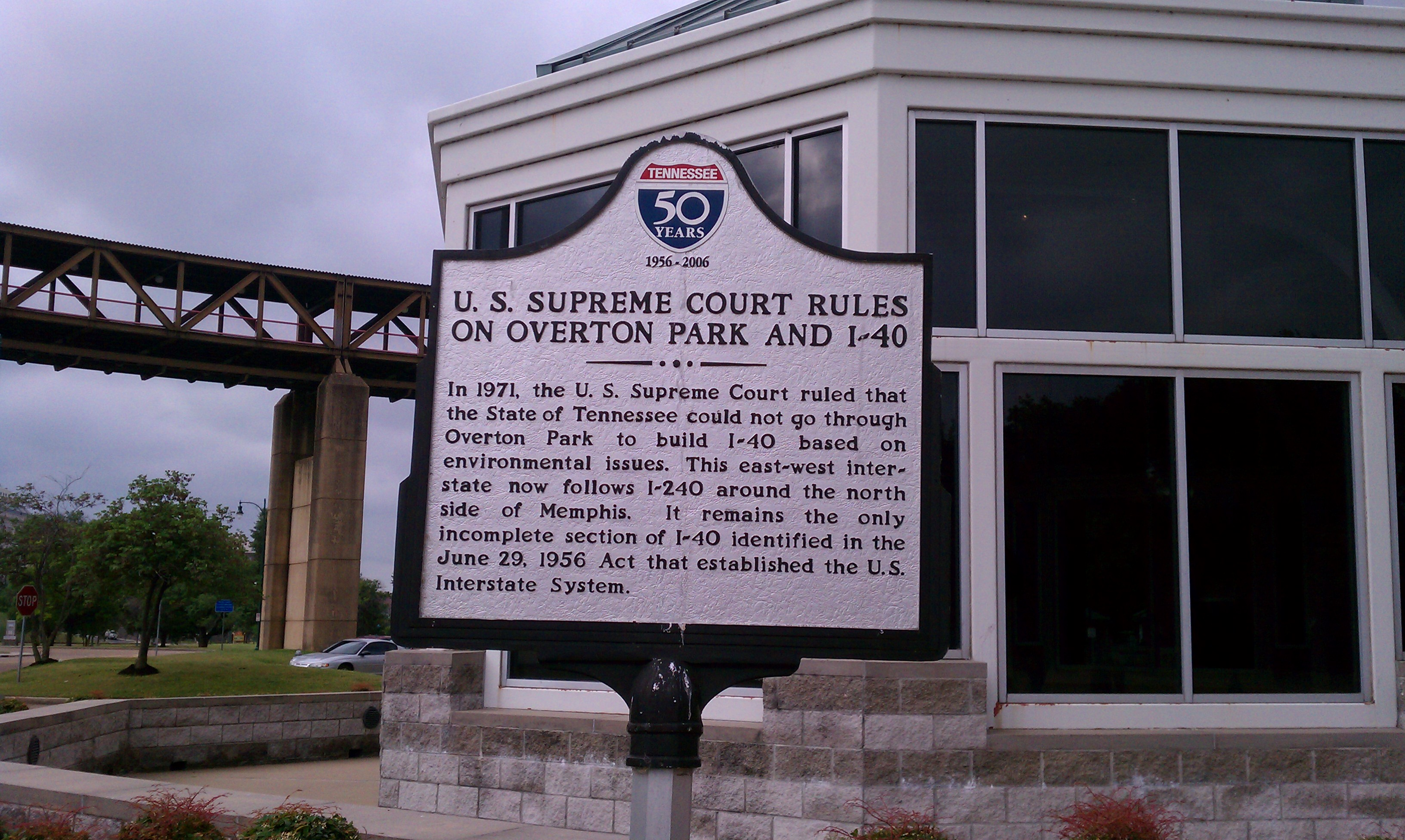 Sign presenting the 1971 decision of Citizens to Preserve Overton Park v. Volpe by the Supreme Court of the United States; located at B.B. King/Elvis Presley Welcome Center, Memphis, TN